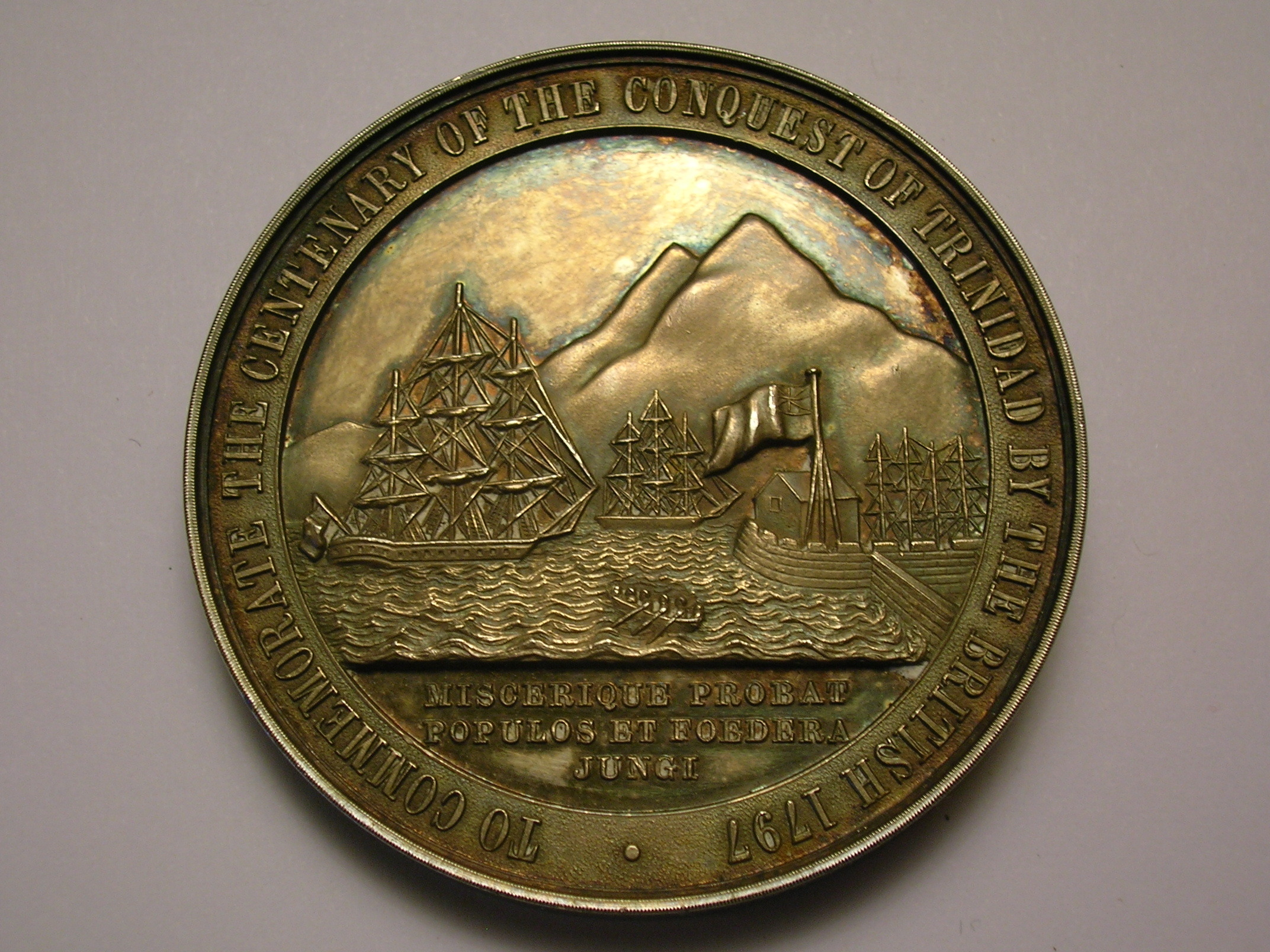 An 1897 medallion commemorating the centenary of the capture of Trinidad and Tobago by the British under Sir Ralph Abercromby in 1797